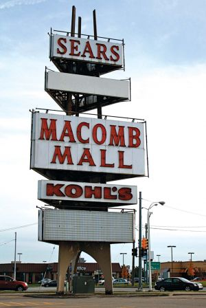 Sing of Macomb Mall